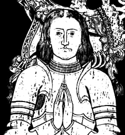 Tomb effigy of Edmund Tudor, 1st Earl of Richmond (1431–1456)